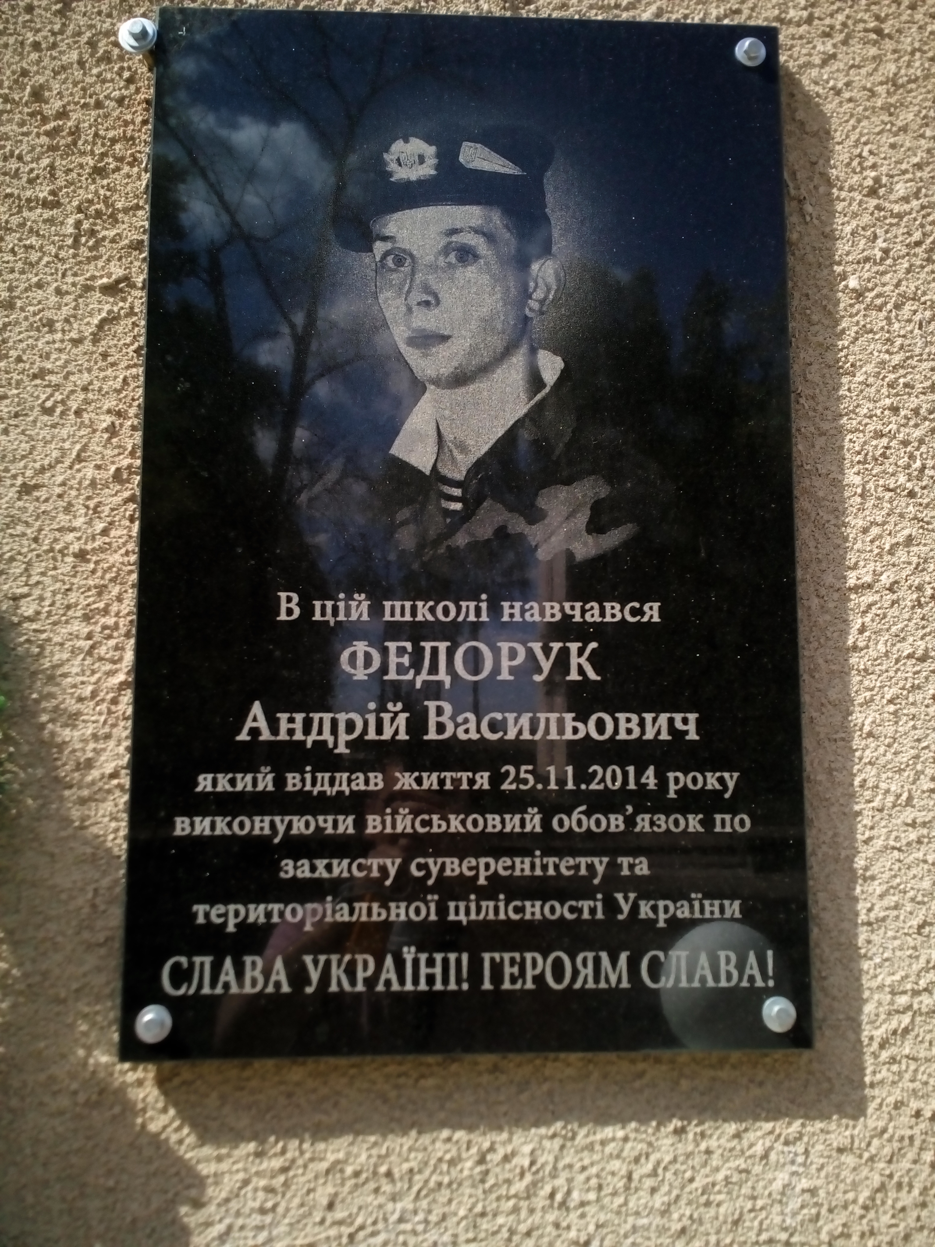 Memorial plaque Andrew Fedoruk